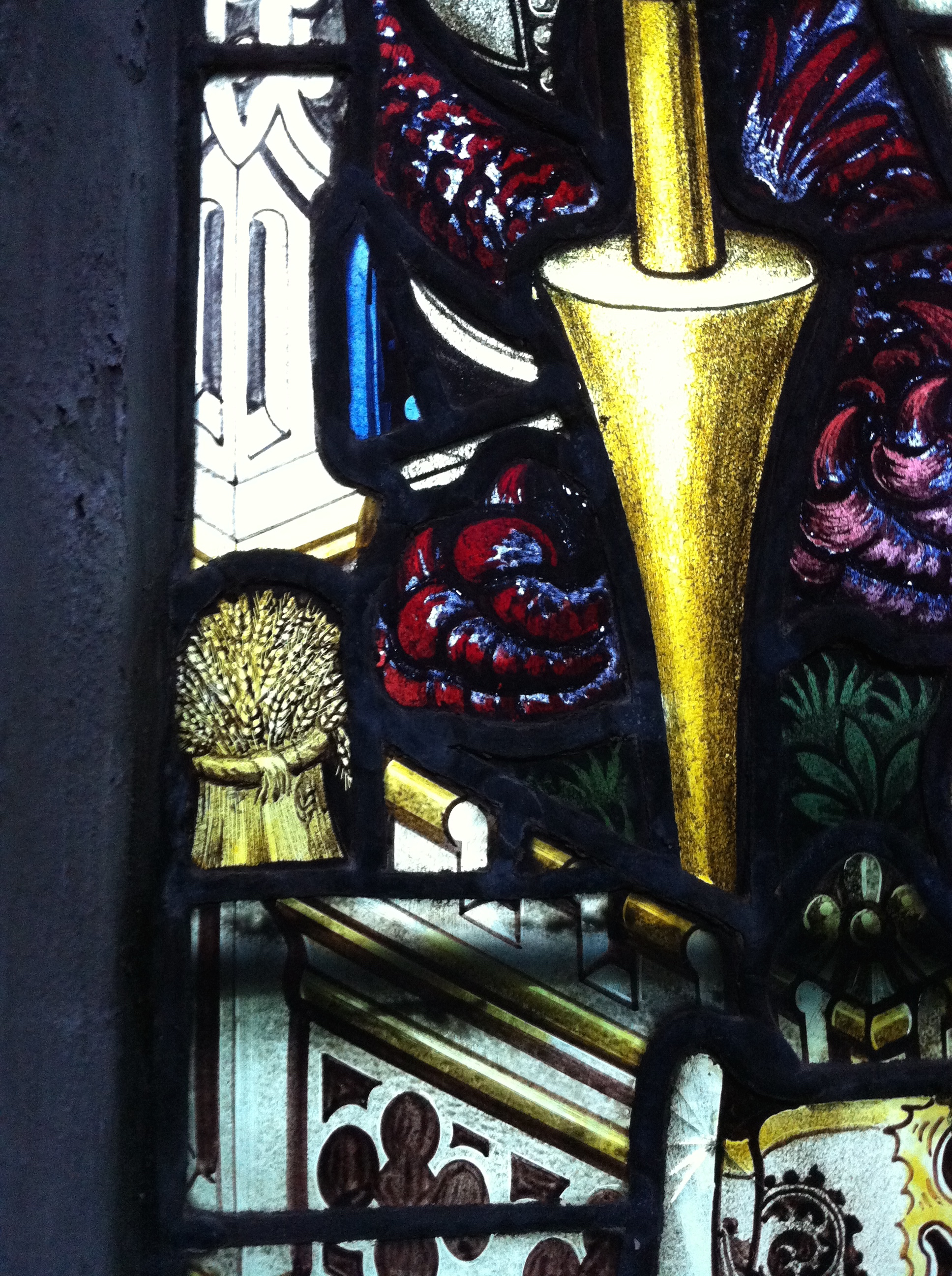 On window in south aisle of St Mary's Church, Nottingham, in the panel containing St George.